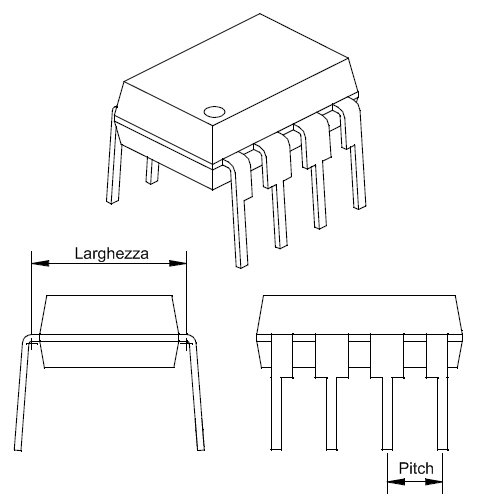 DIP package pitch and width dimensions